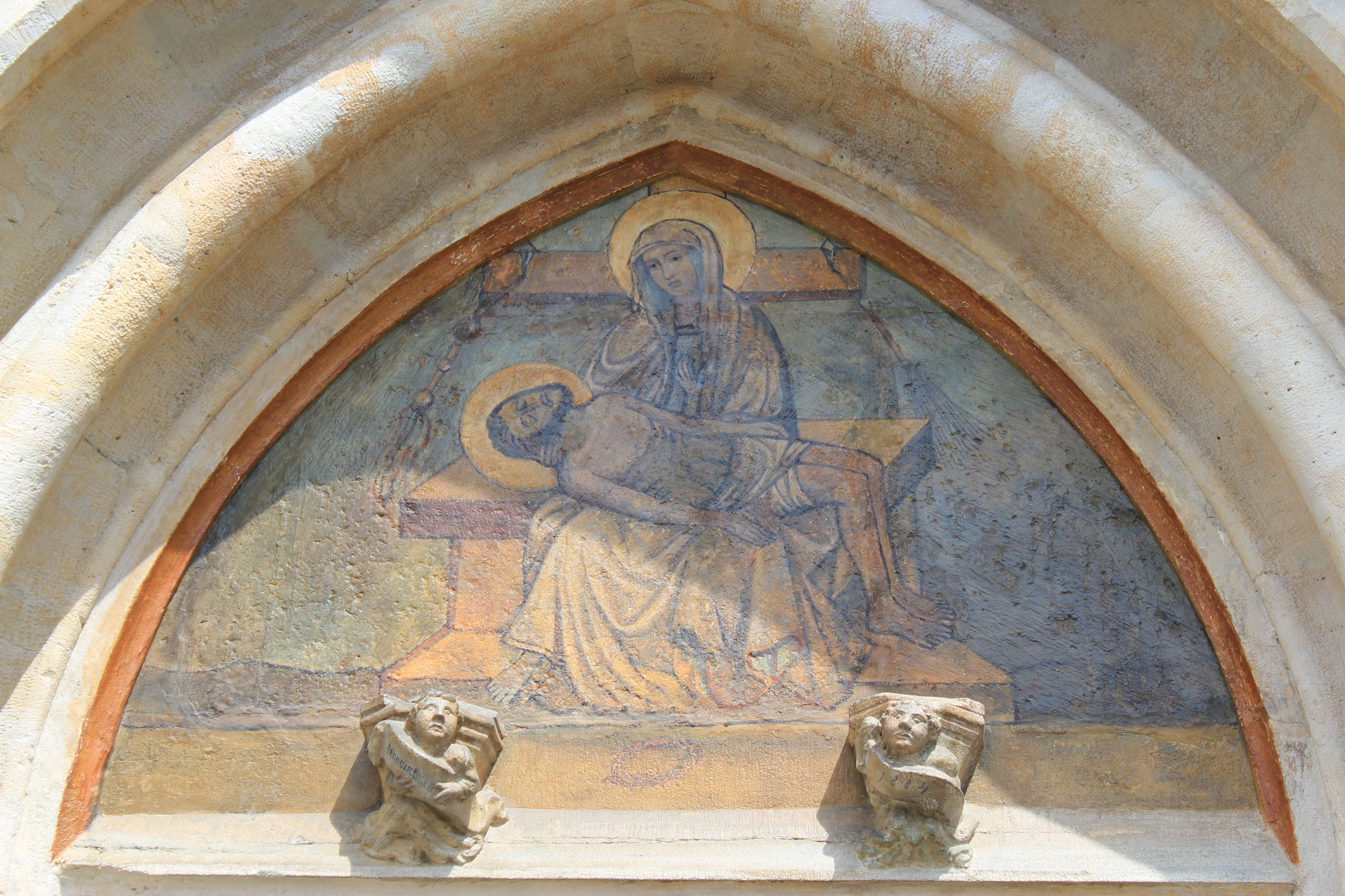 Parish church in Althofen - Tympanum